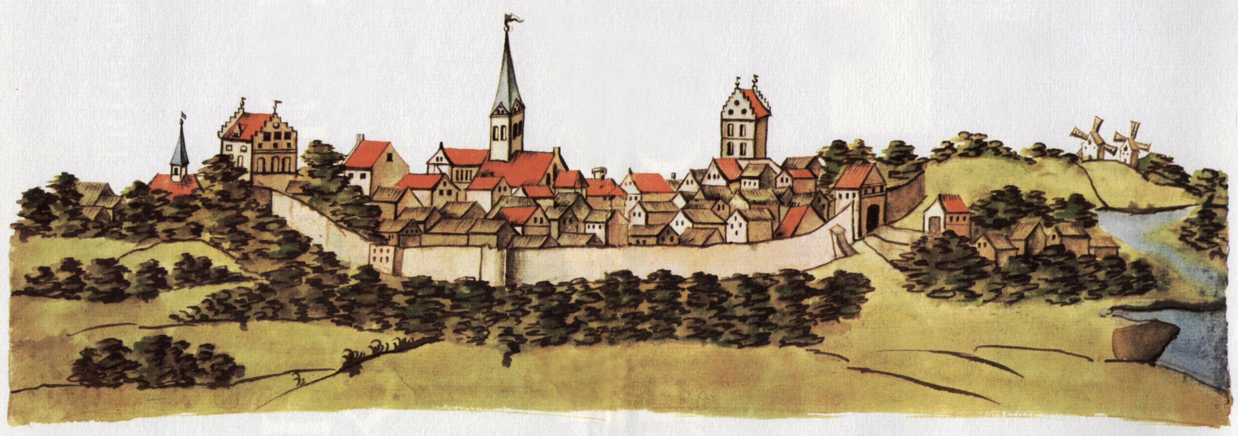 Cityview of Usedom from the "Stralsunder Bilderhandschrift"